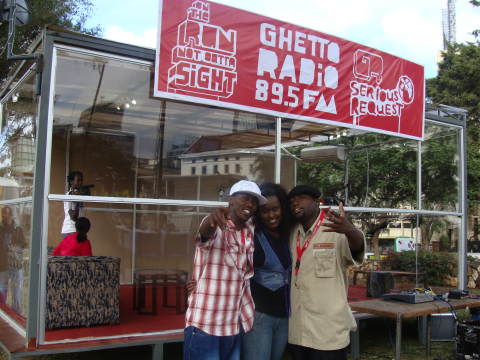 Angel, Rapcha "the Sayantist" and Muki Garang, the Serious Request, Nairobi, presenters in front of the Glass House about an hour before the event began.